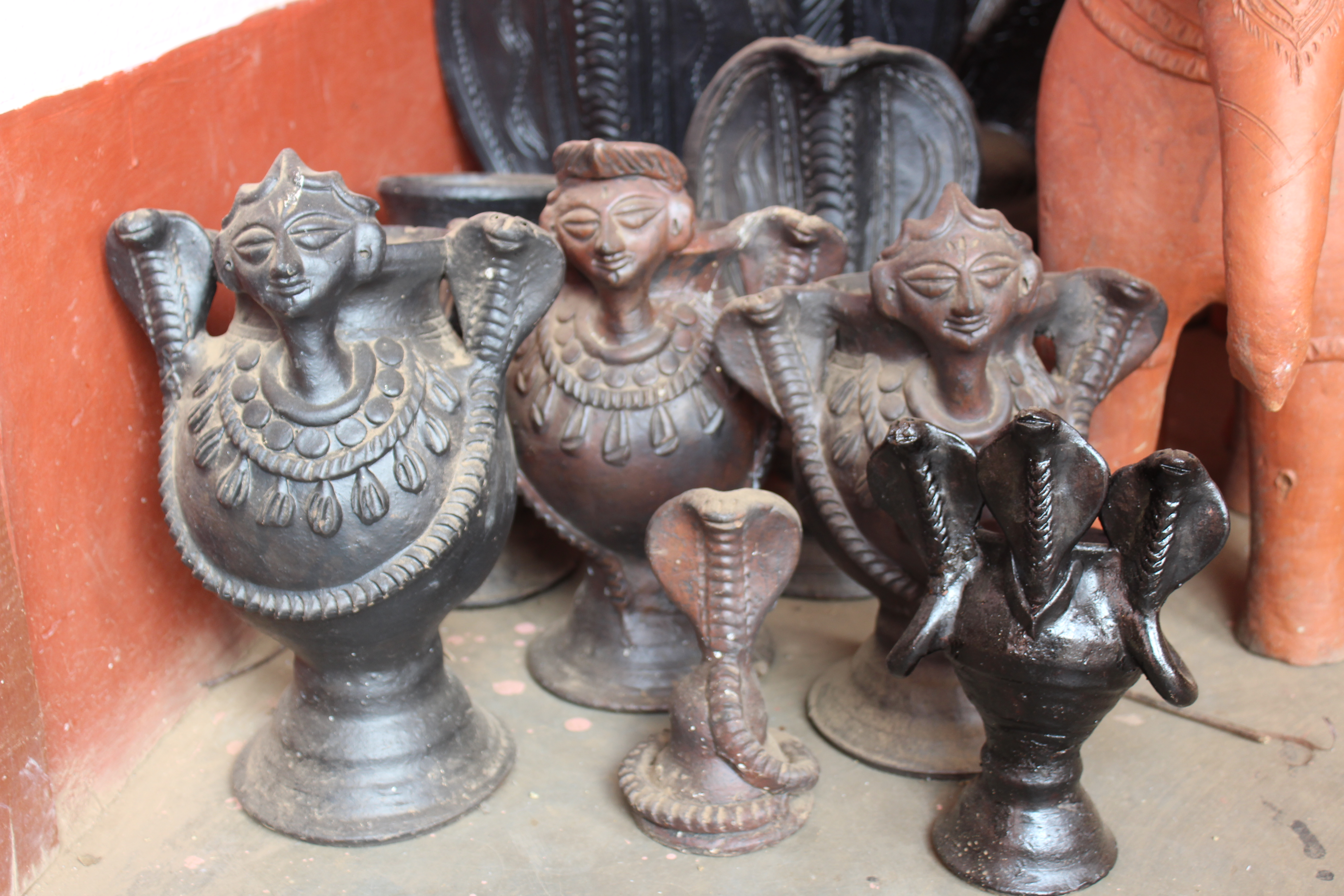 Terracotta art of Panchmura